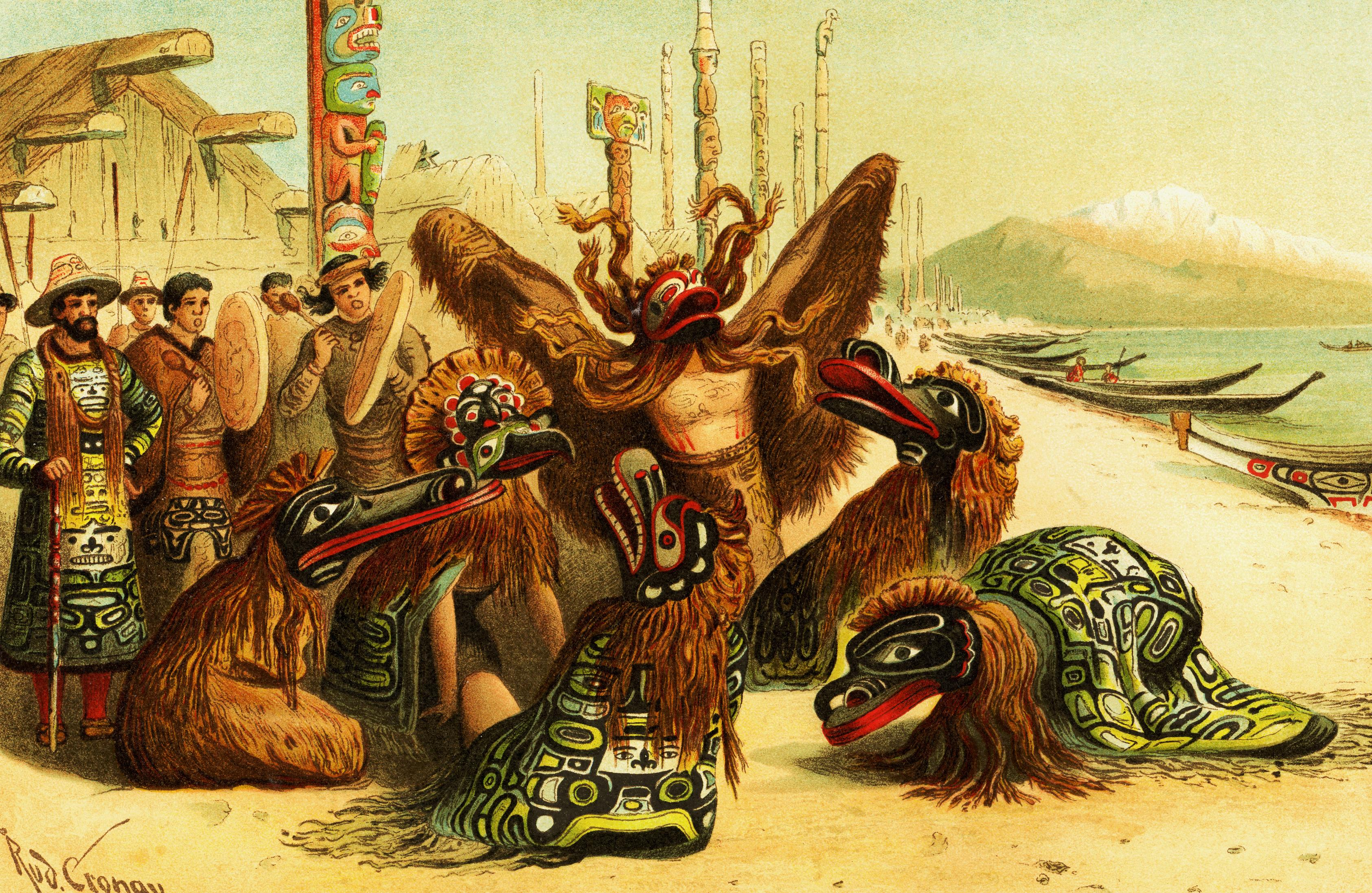 Bella Coola or Nuxálk people - Nuxalk - of North Western North America, i.e. British Columbia. Religious ceremonial with Totems and the playing of frame drums. The picture is made after nature before photograpic reproductions in color was in common use. Added by